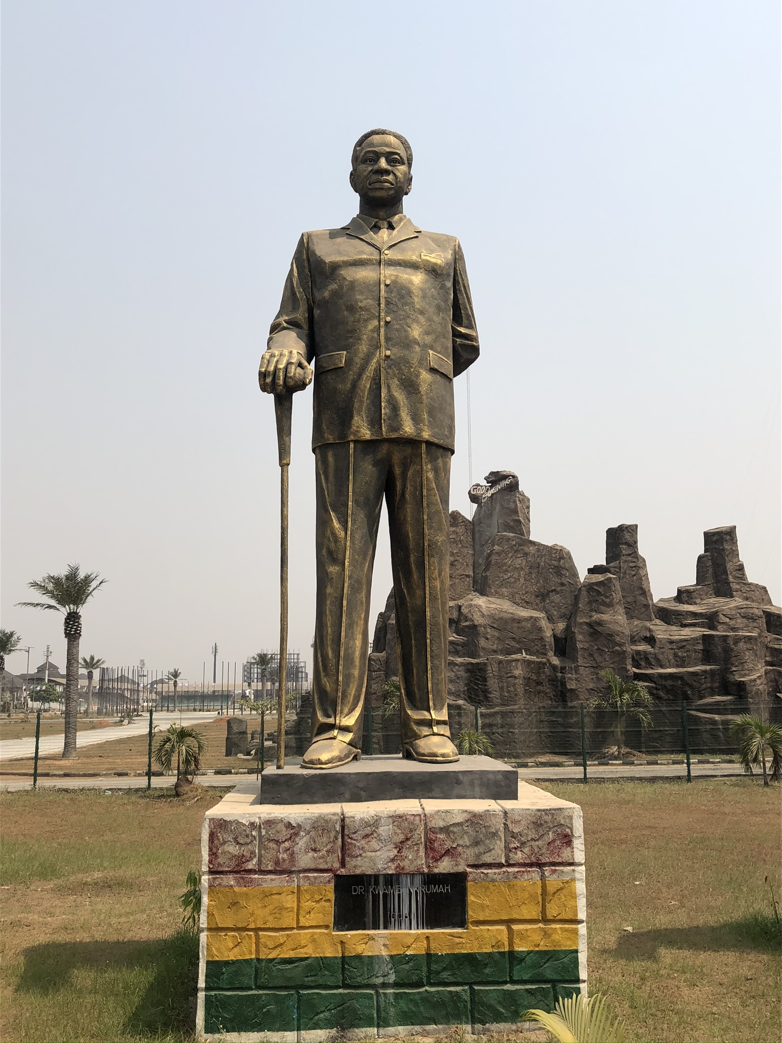 Statue Tourist attraction in Owerri Imo State